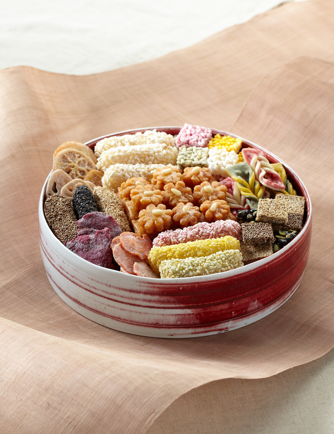 Hangwa